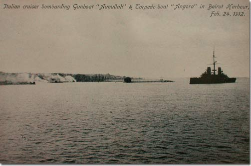 Bombardement of turkish vessels at beirut